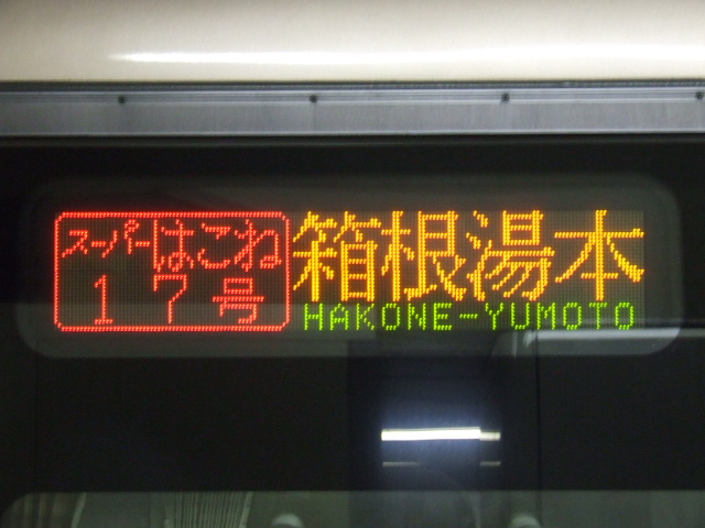 Expression〝Super-HAKONE〟,Model 30000 -Odakyu RomanceCar EXE-,Odakyu Electric Railway,Japan